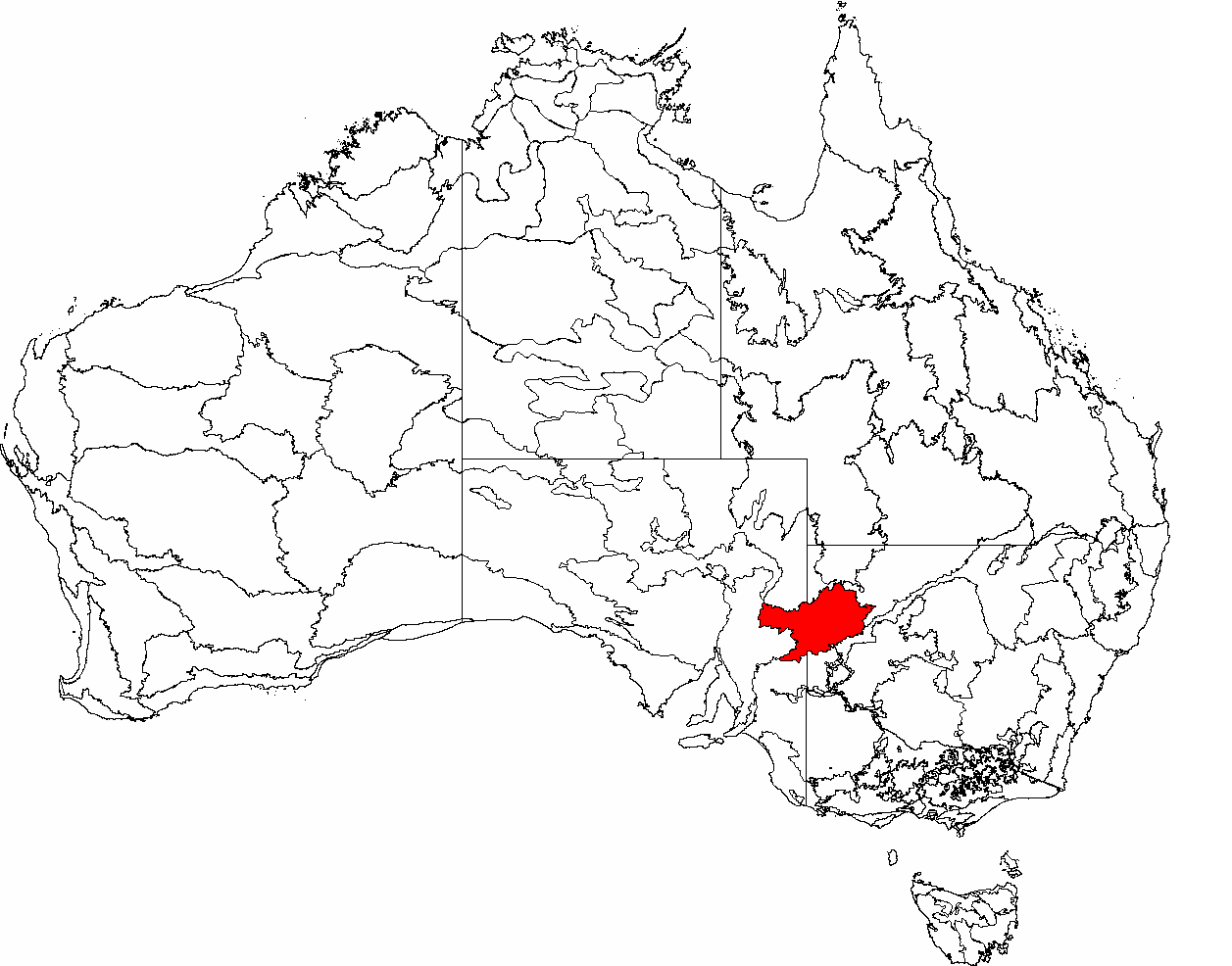 This is a map of the Interim Biogeographic Regionalisation of Australia (IBRA), with state boundaries overlaid. The Broken Hill Complex region is shown in red.